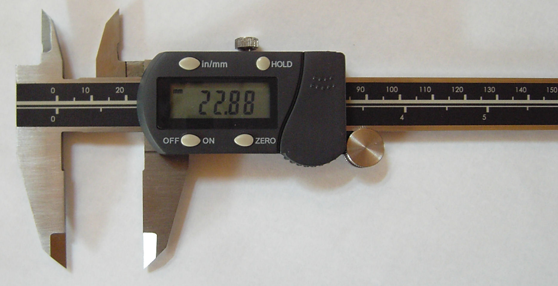 Digital caliper with LCD display